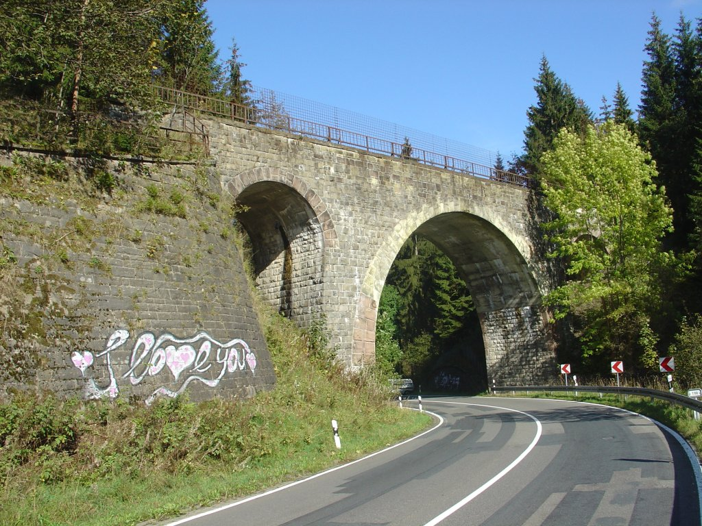 Viadukt in the Harz-Forrest